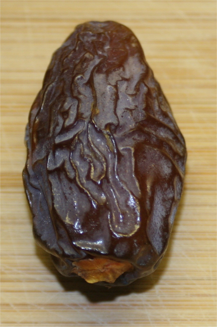 A Medjool date.